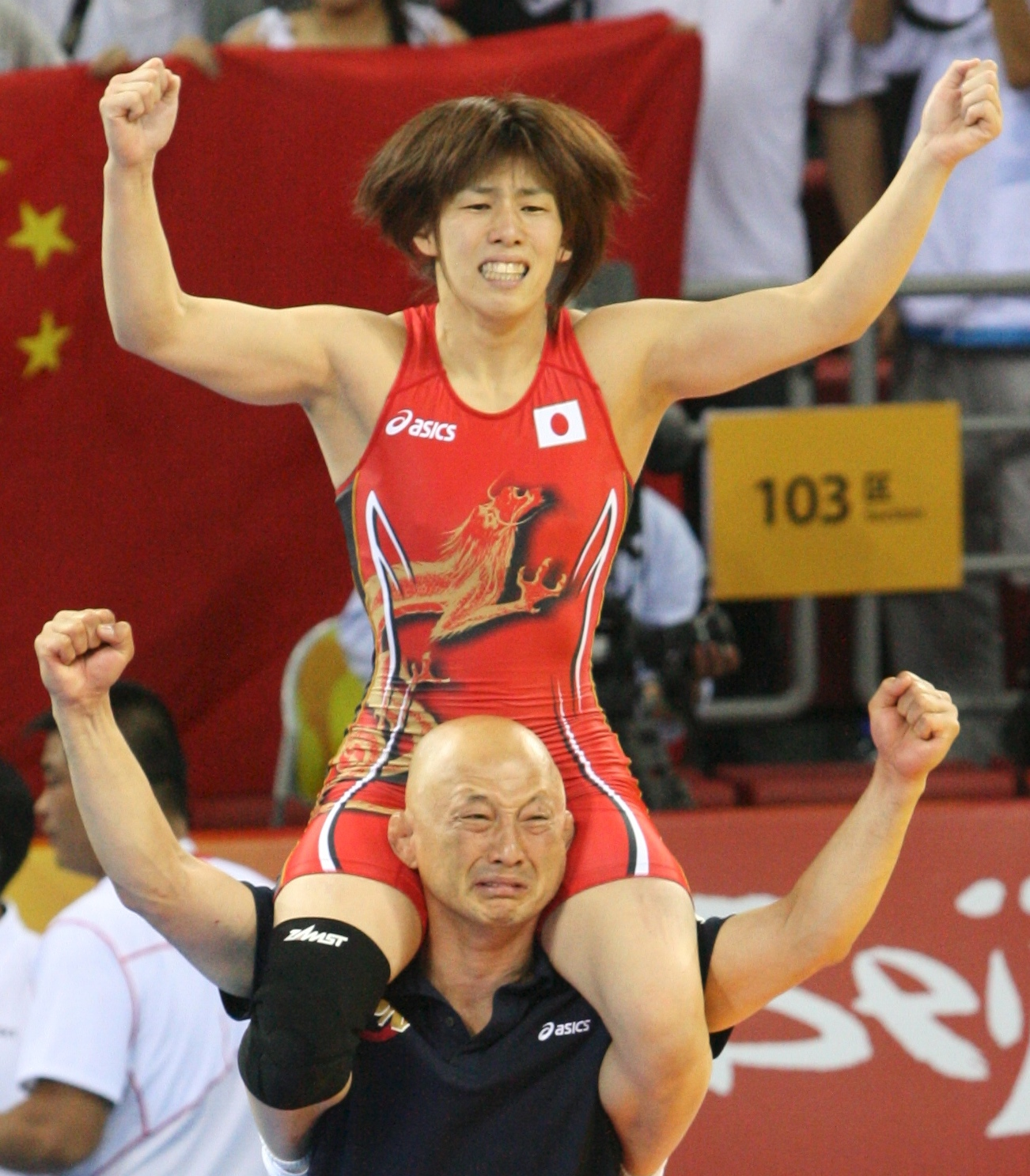 Saori Yoshida cheers after winning 55kg olympic female wrestling final in beijing 2008